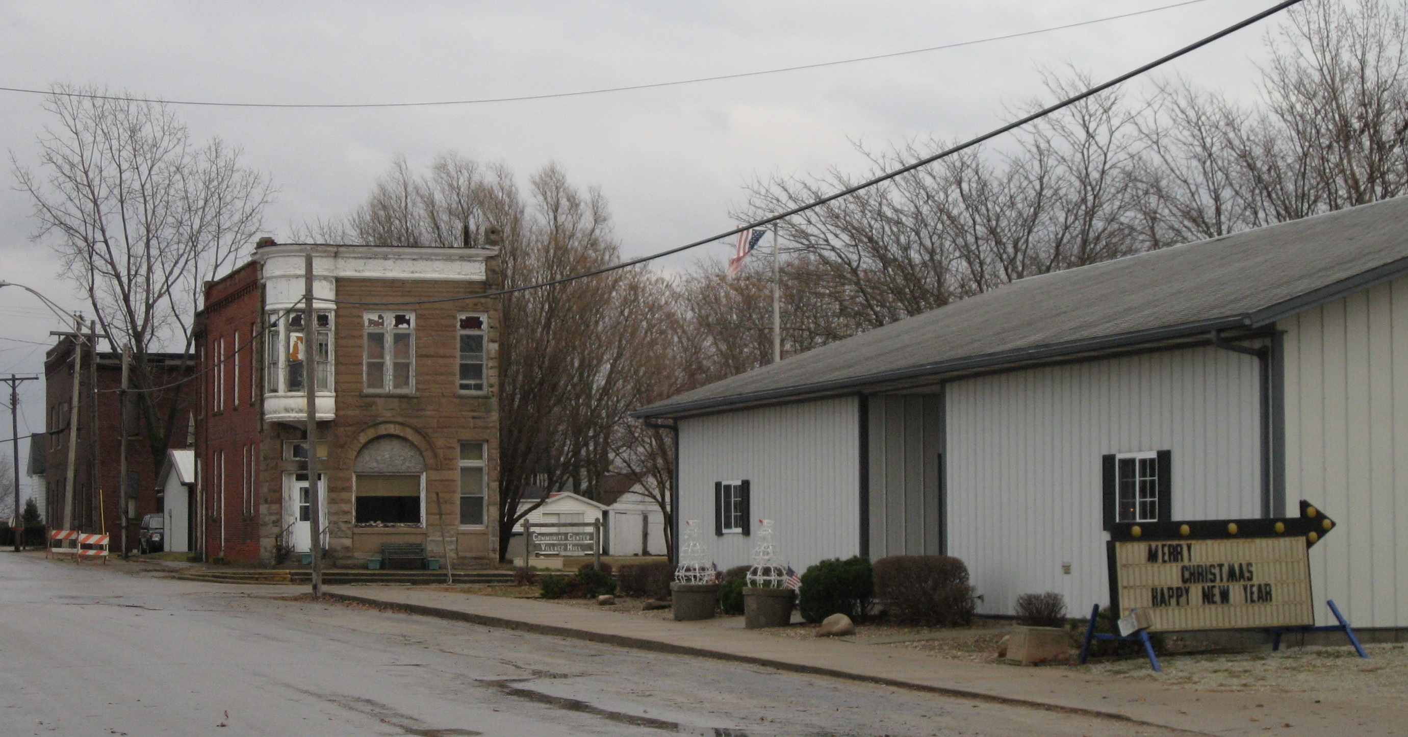 Village Hall and Community Center of Hume, Illinois, as seen from the west on Front Street.